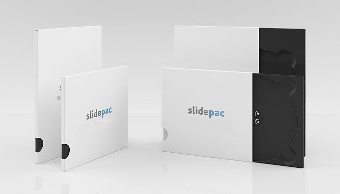 slidepac